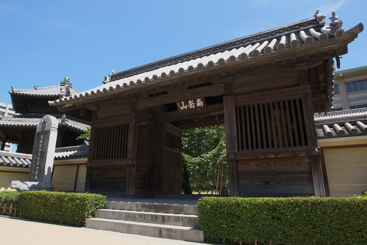 Touchouji temple, gate, in Hakata, Fukuoka city, Japan.